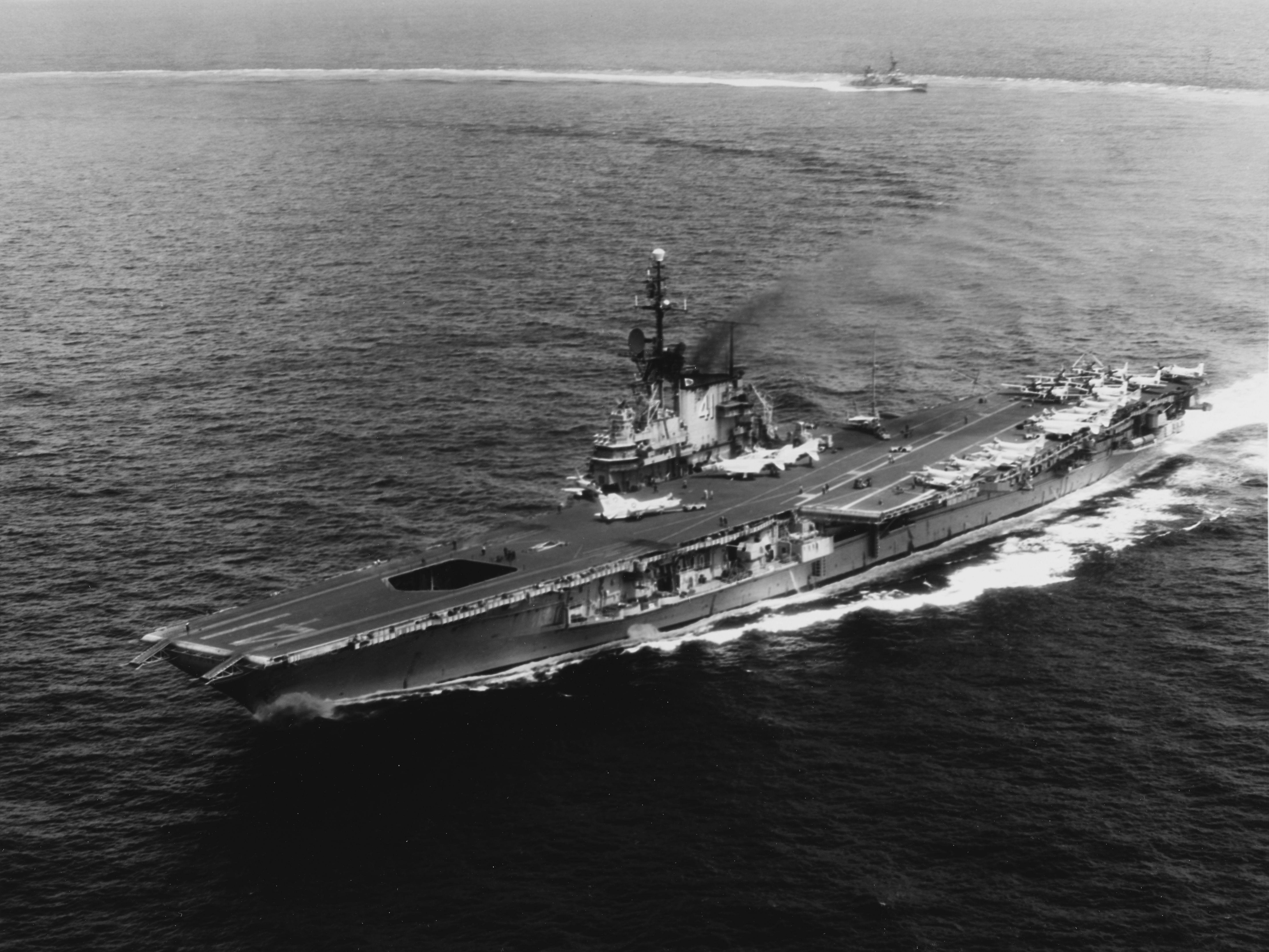 The U.S. Navy aircraft carrier USS Midway (CVA-41) operating in the South China Sea, 27 October 1965. Midway, with assigned to Carrier Air Wing 2 (CVW-2), was deployed to Vietnam from 6 March to 23 November 1965.